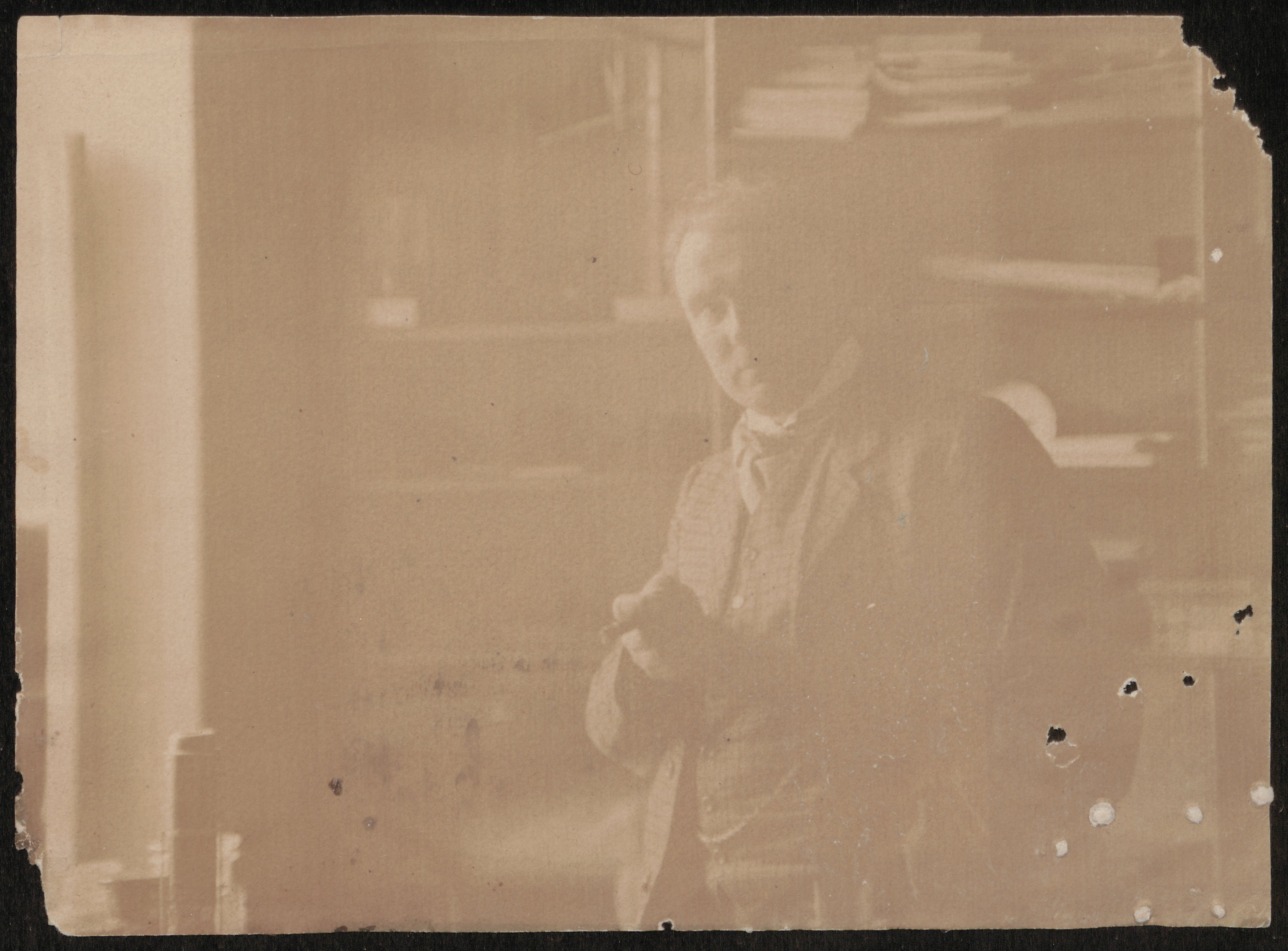 Jan Bułhak, Polish photographer in his atelier.